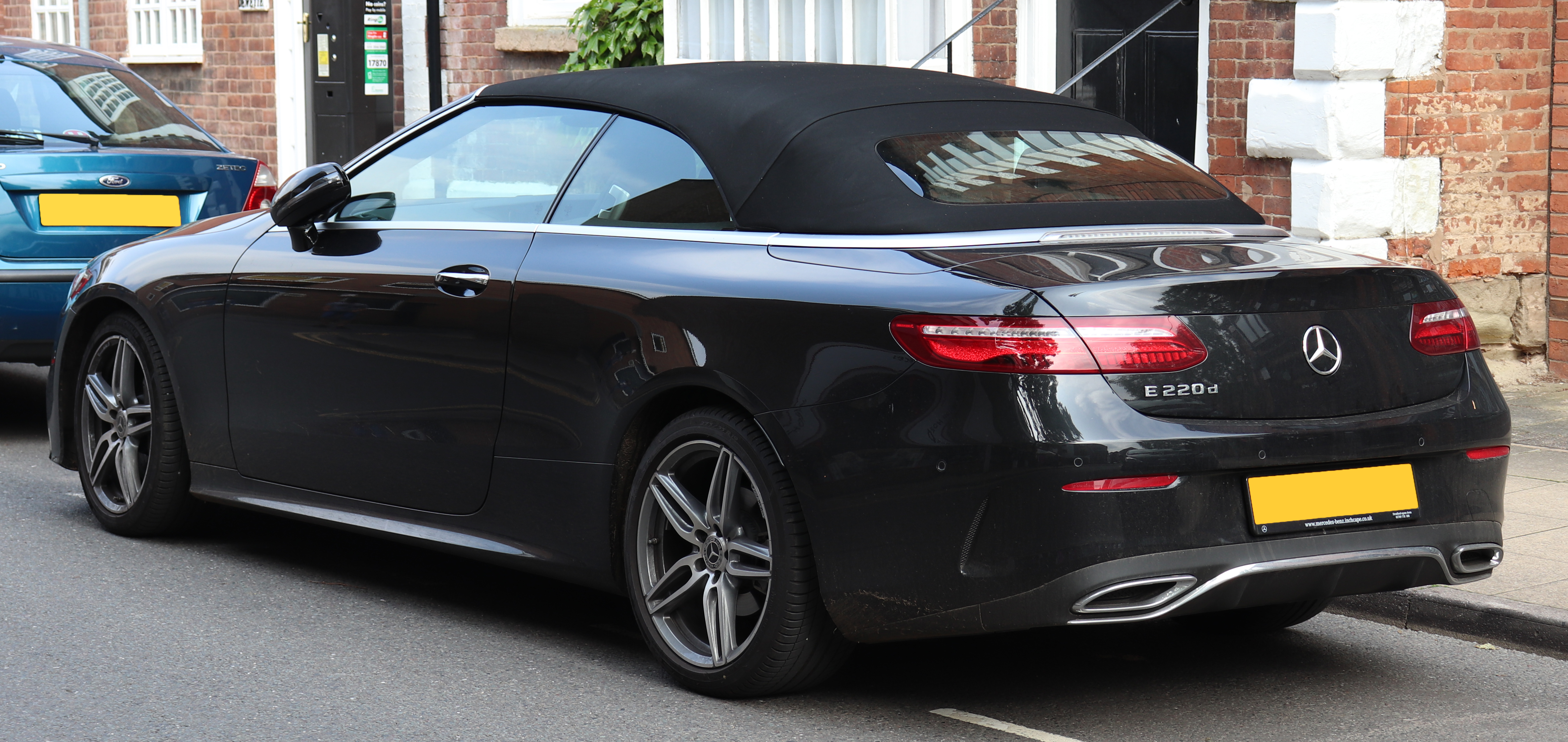 2018 Mercedes-Benz E220 D AMG Line Premium 2.0 Rear Taken in Warwick